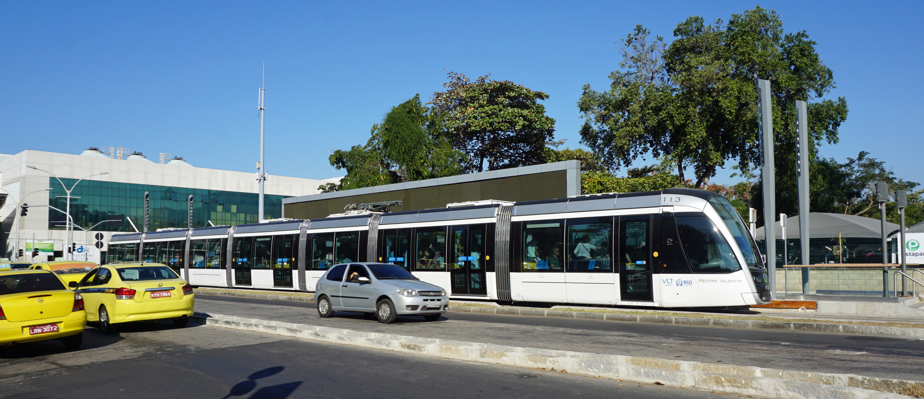 Rio de Janeiro LRT, Santos Dumont Airport station